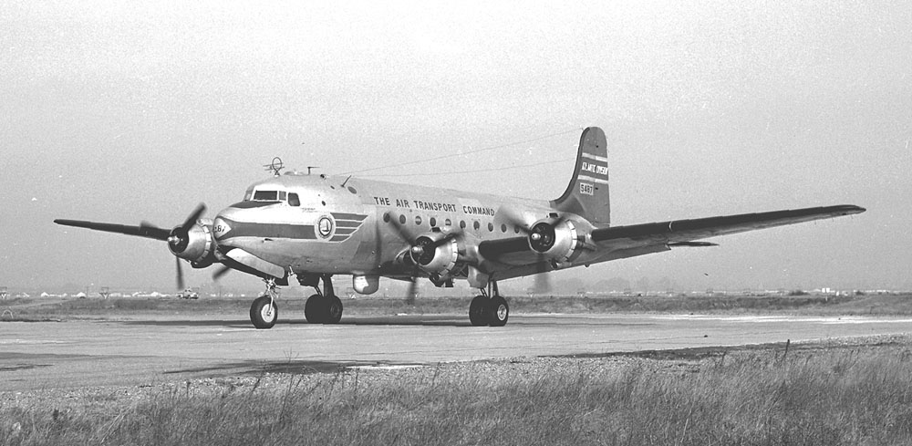 C-54AtlanticDiv